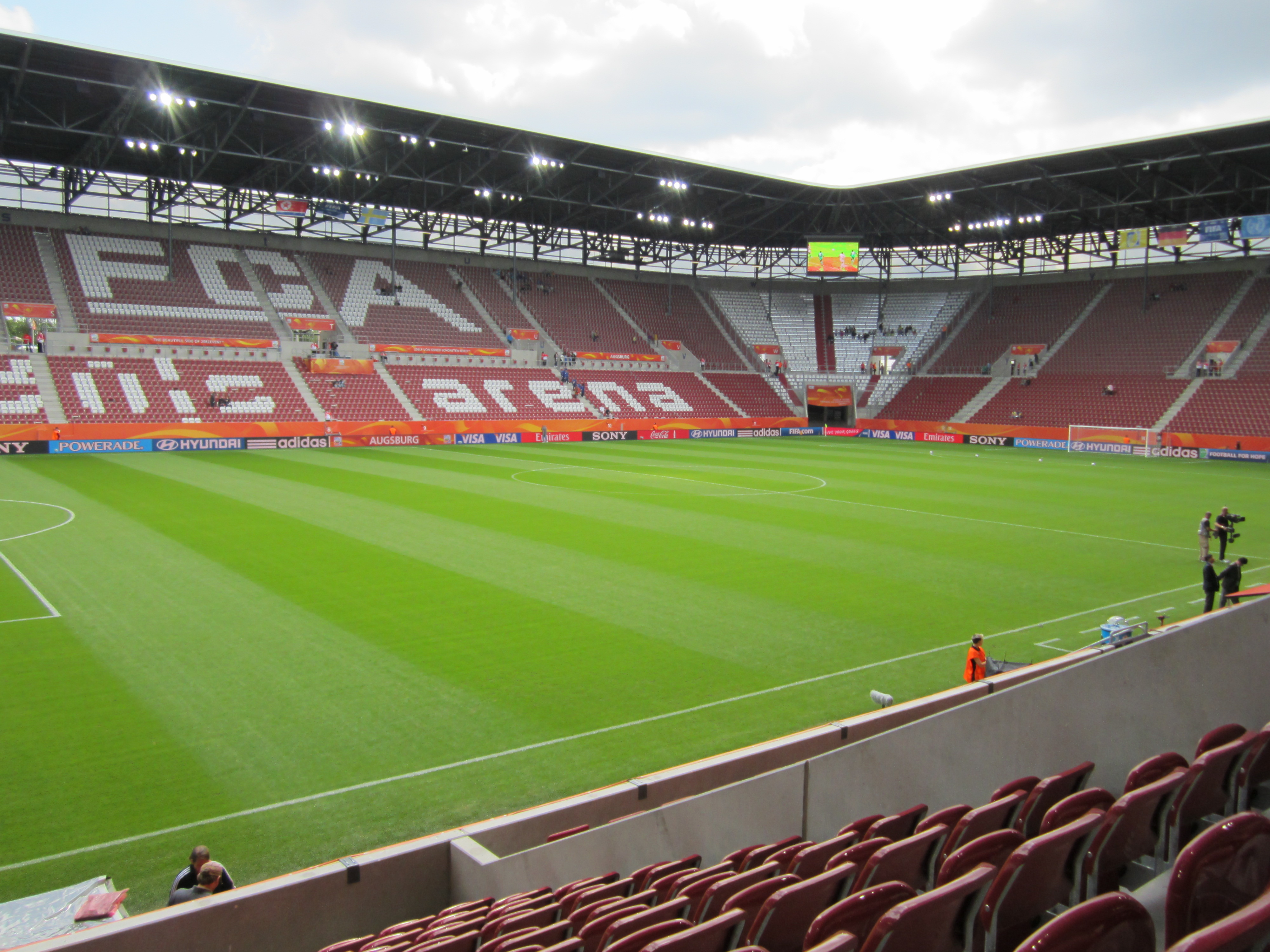 SGL / (Impuls) Arena, Augsburg during the FIFA Women's World Cup Sweden vs North Korea.